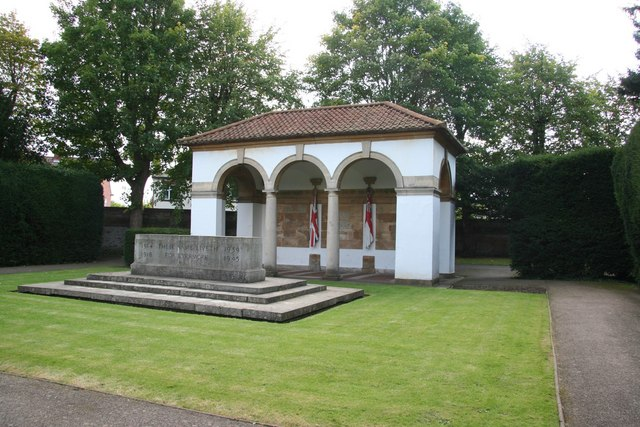 Great War Memorial War memorial in Ayscoughfee Hall gardens designed by Edwin Lutyens to the men of Spalding who gave their lives in 1914-18 war